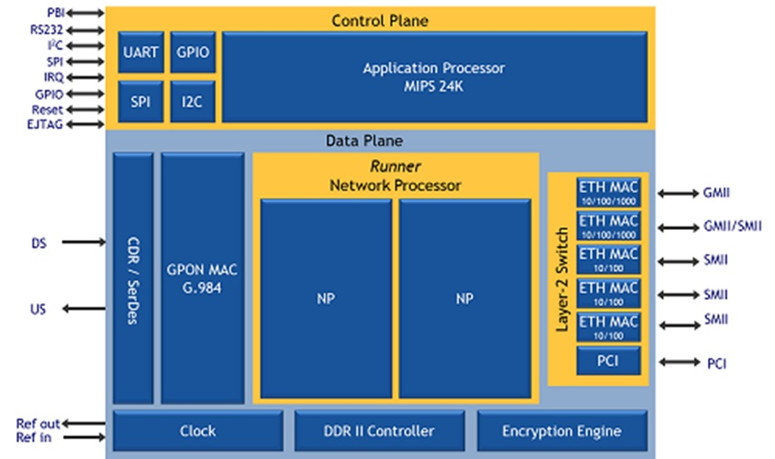 This is a Block Diagram of BL2345.